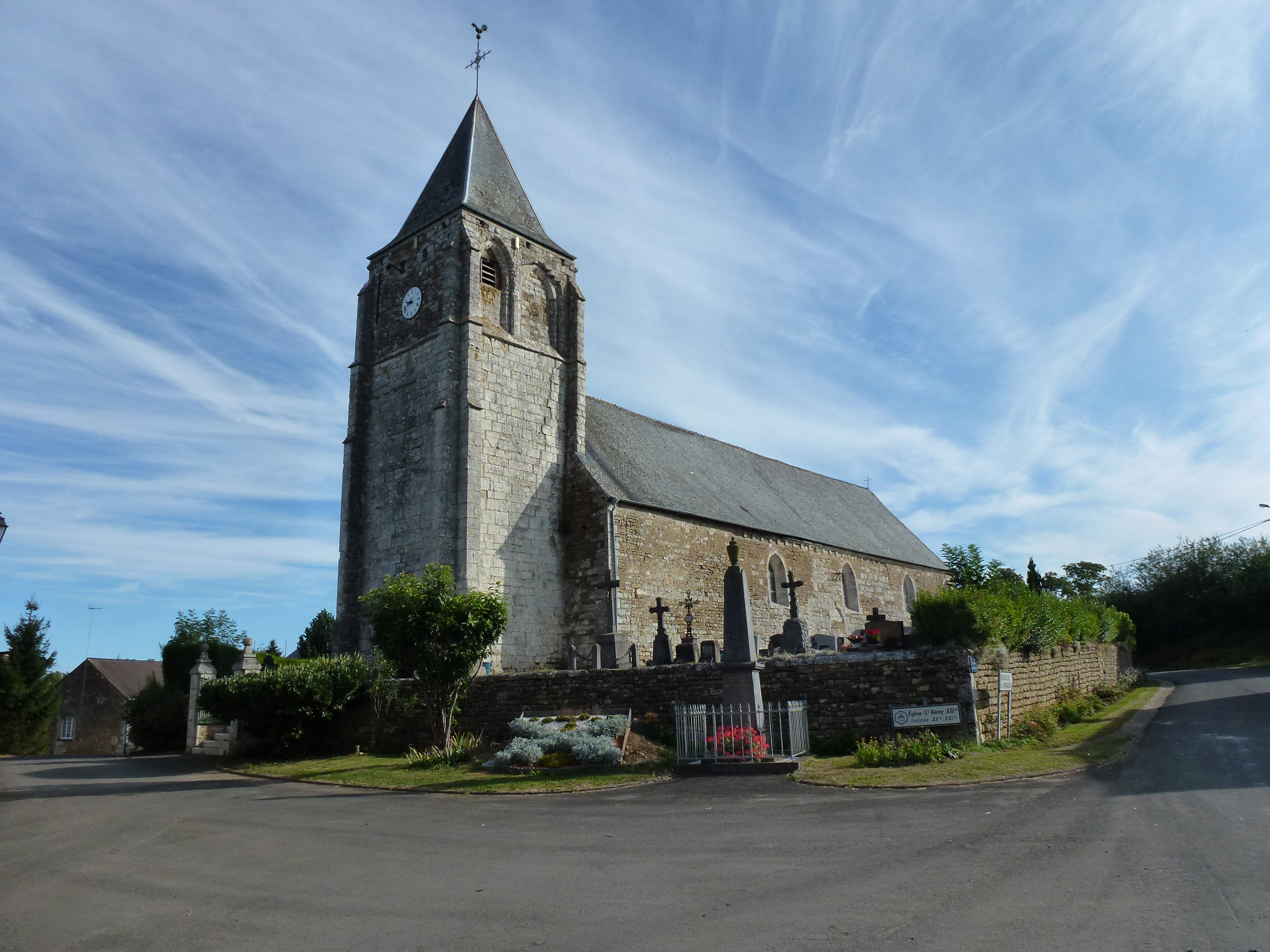 Antheny (Ardennes) Église Saint-Remy extérieur